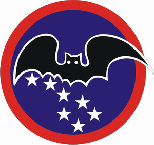 The mark of ROCAF 34th Squadron (Black Bat)